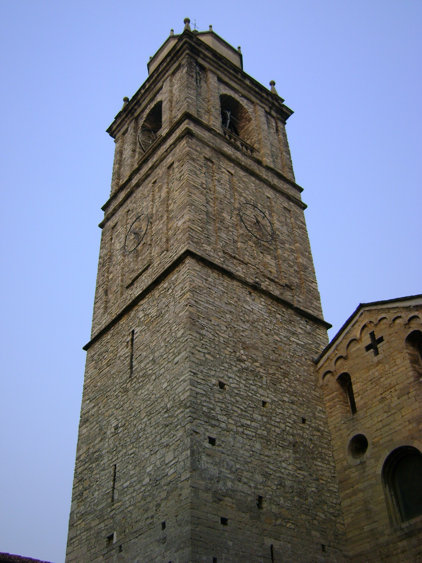 The bell tower of basilica of St. James in Bellagio (province of Como)